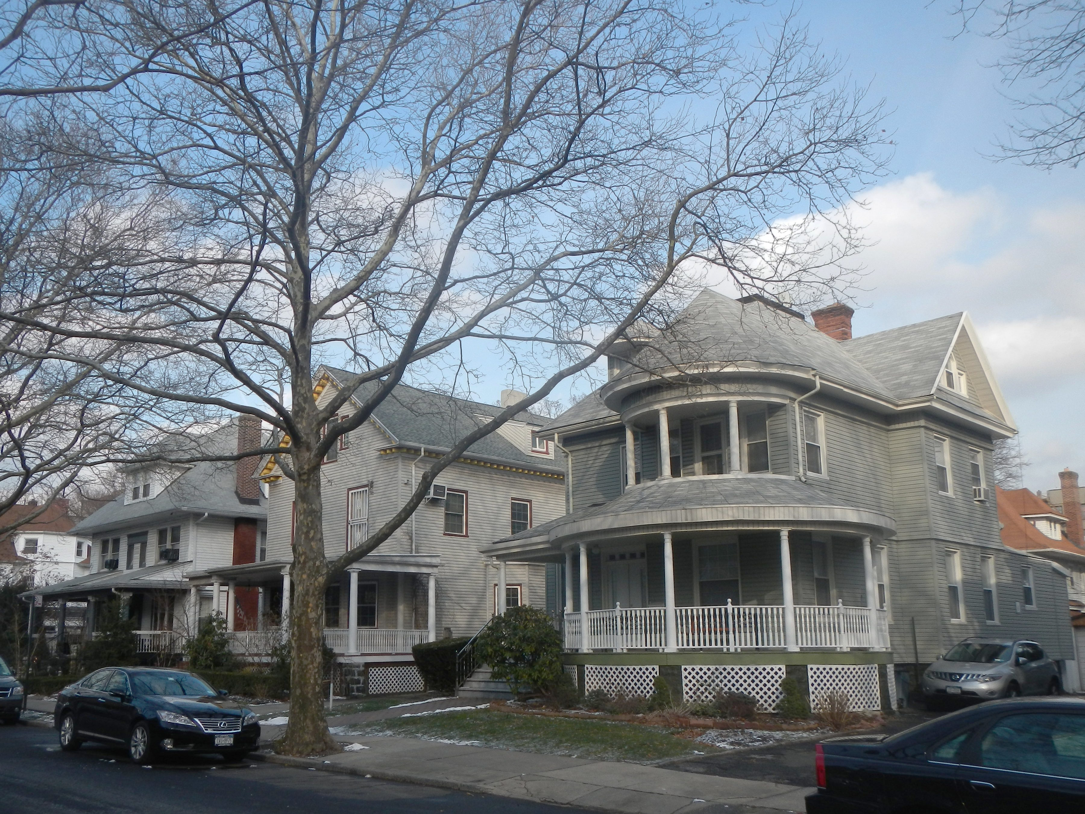 Looking northeast in Beverley Square East on a partly cloudy winter afternoon.